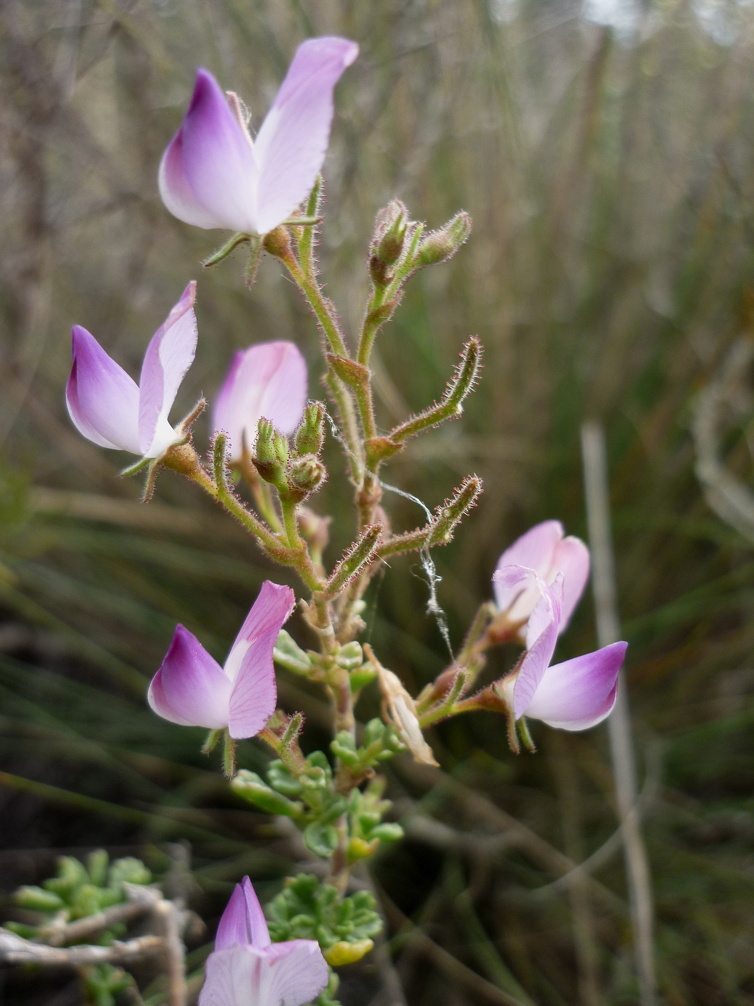 Ononis tridentata in Torà (Segarra-Catalunya). To 520 m altitude